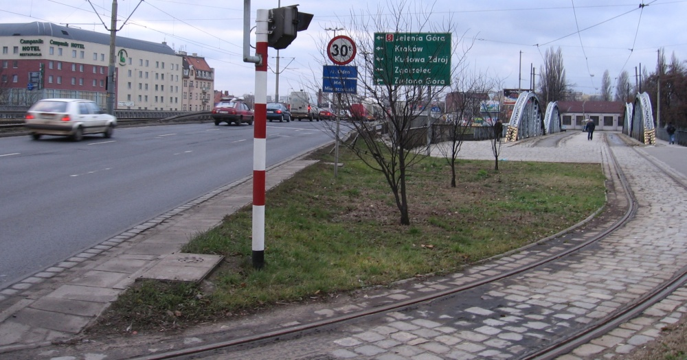 Wrocław, Poland Mosty Mieszczańskie - "Burgher's Bridges"; view from east; the old one (right) and double new one (left)